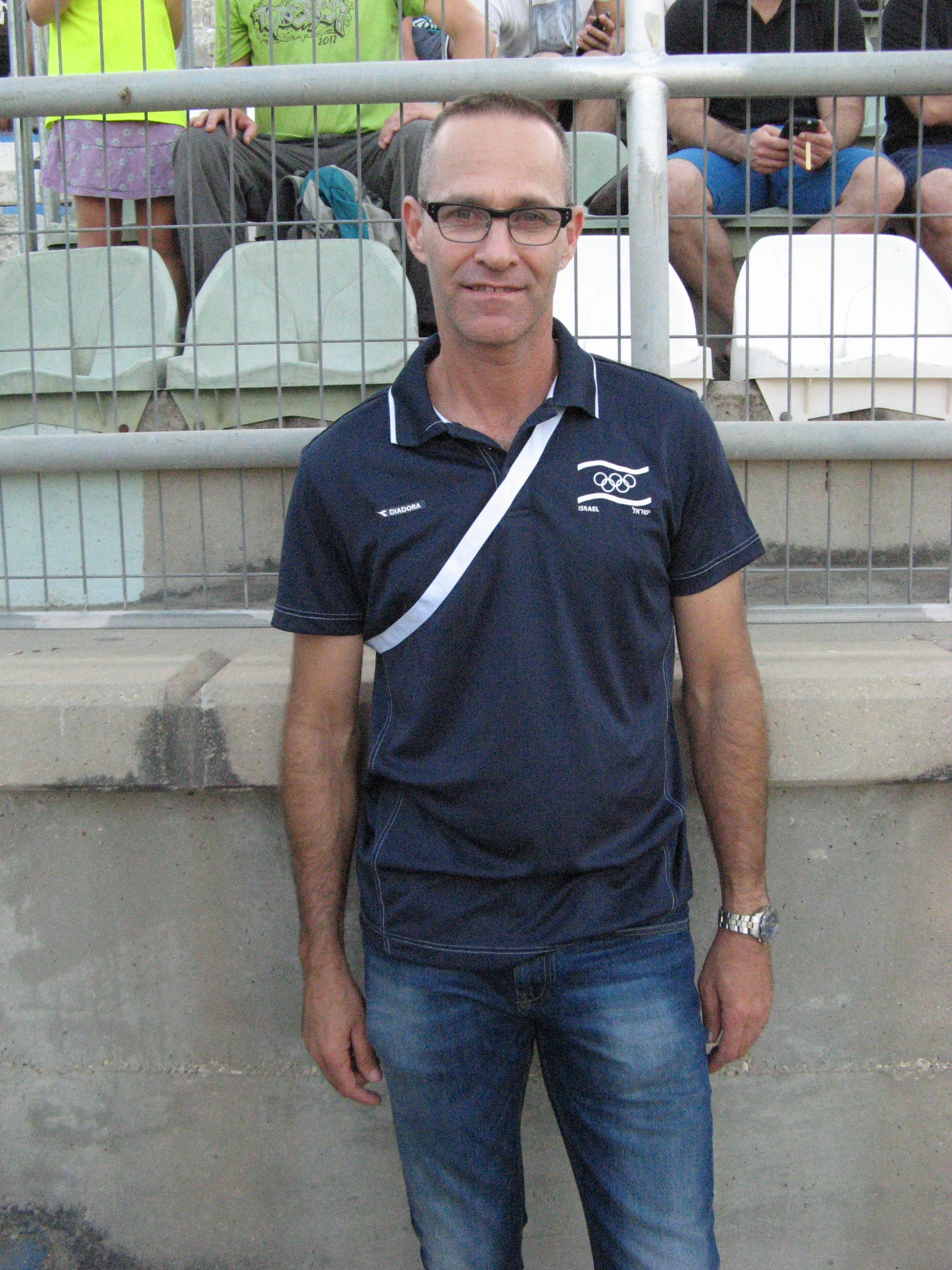 The Israeli former triple jumper Rogel Nahum during the 1st day of the Israel track and field championship 2015.